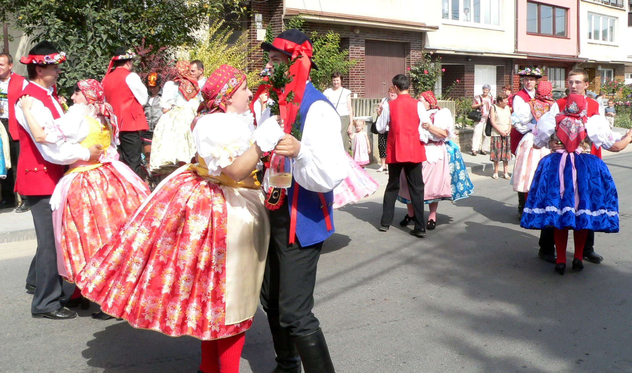 Lisen´s regale, somewhere in Lisen, Brno